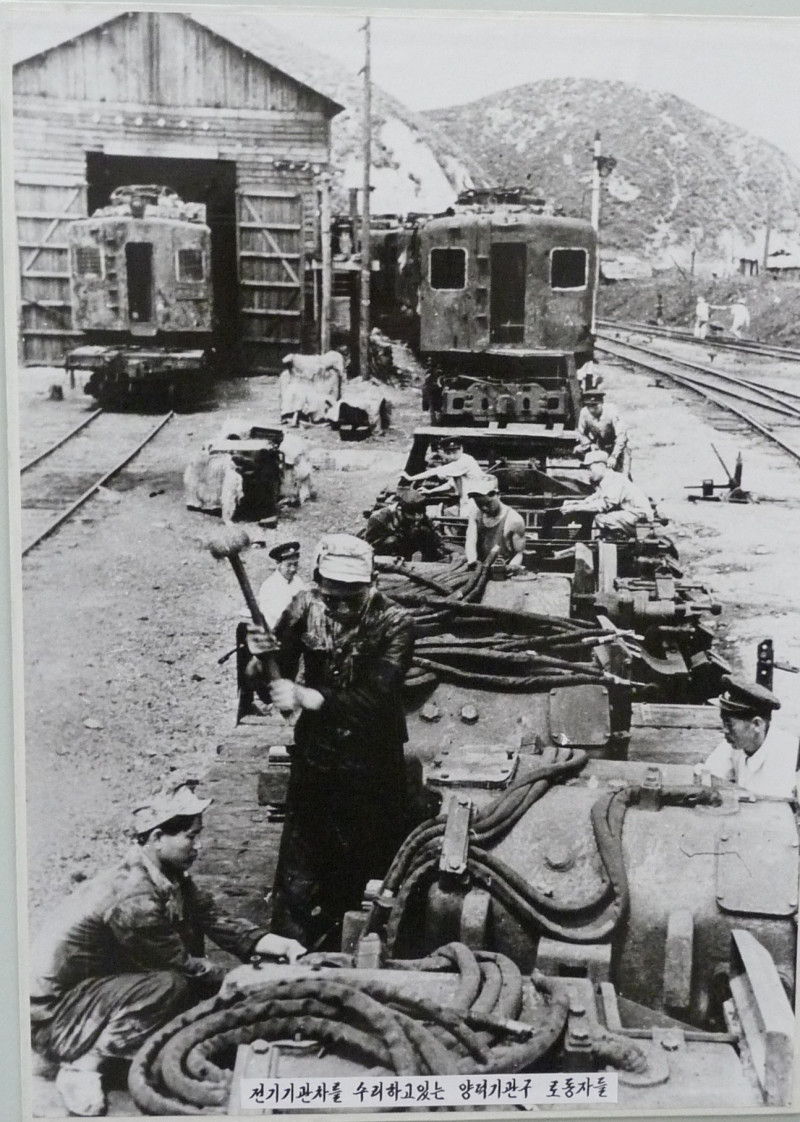 Refurbishment of Japanese-built DeRoI and DeRoNi type electric locomotives at Yangdŏk, North Korea, in 1956.